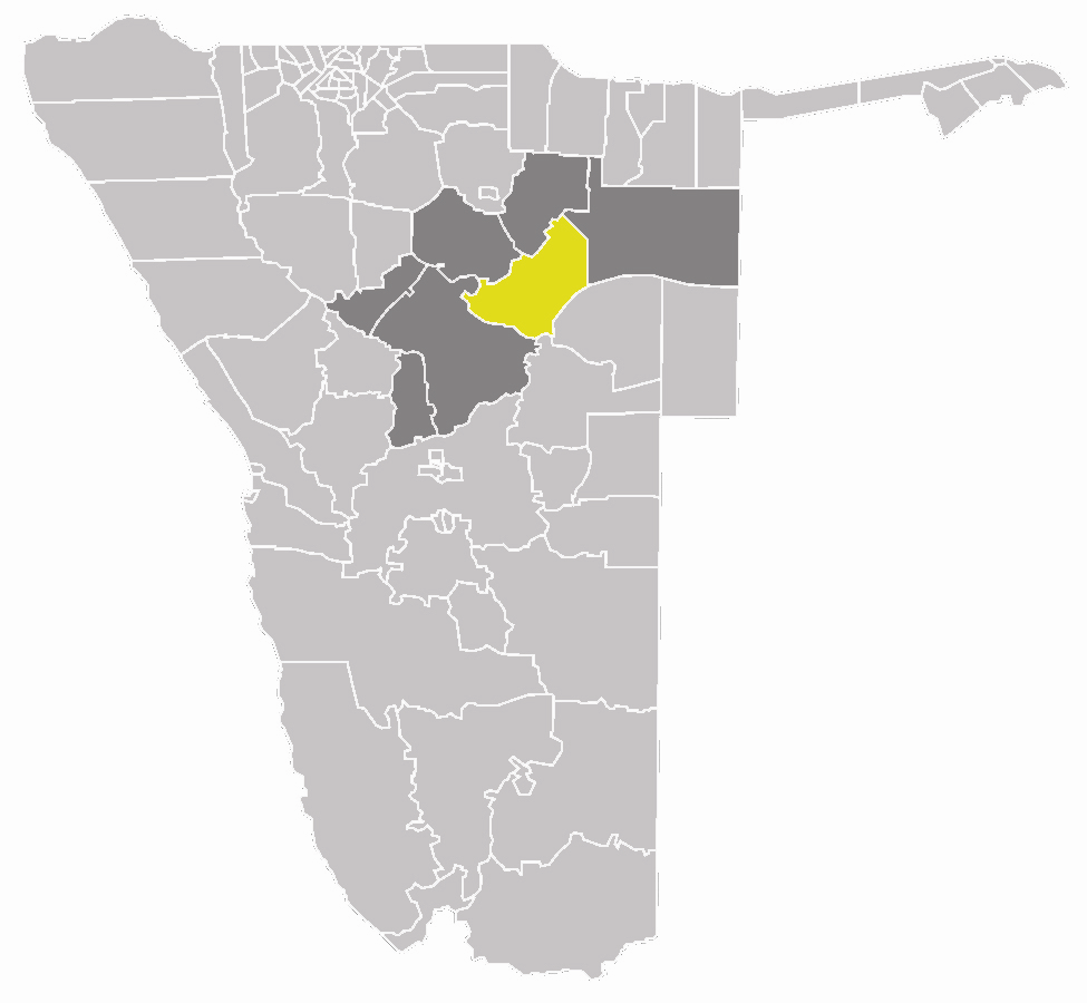 map of the Okakarara constituency within the Otjozondjupa region, Namibia